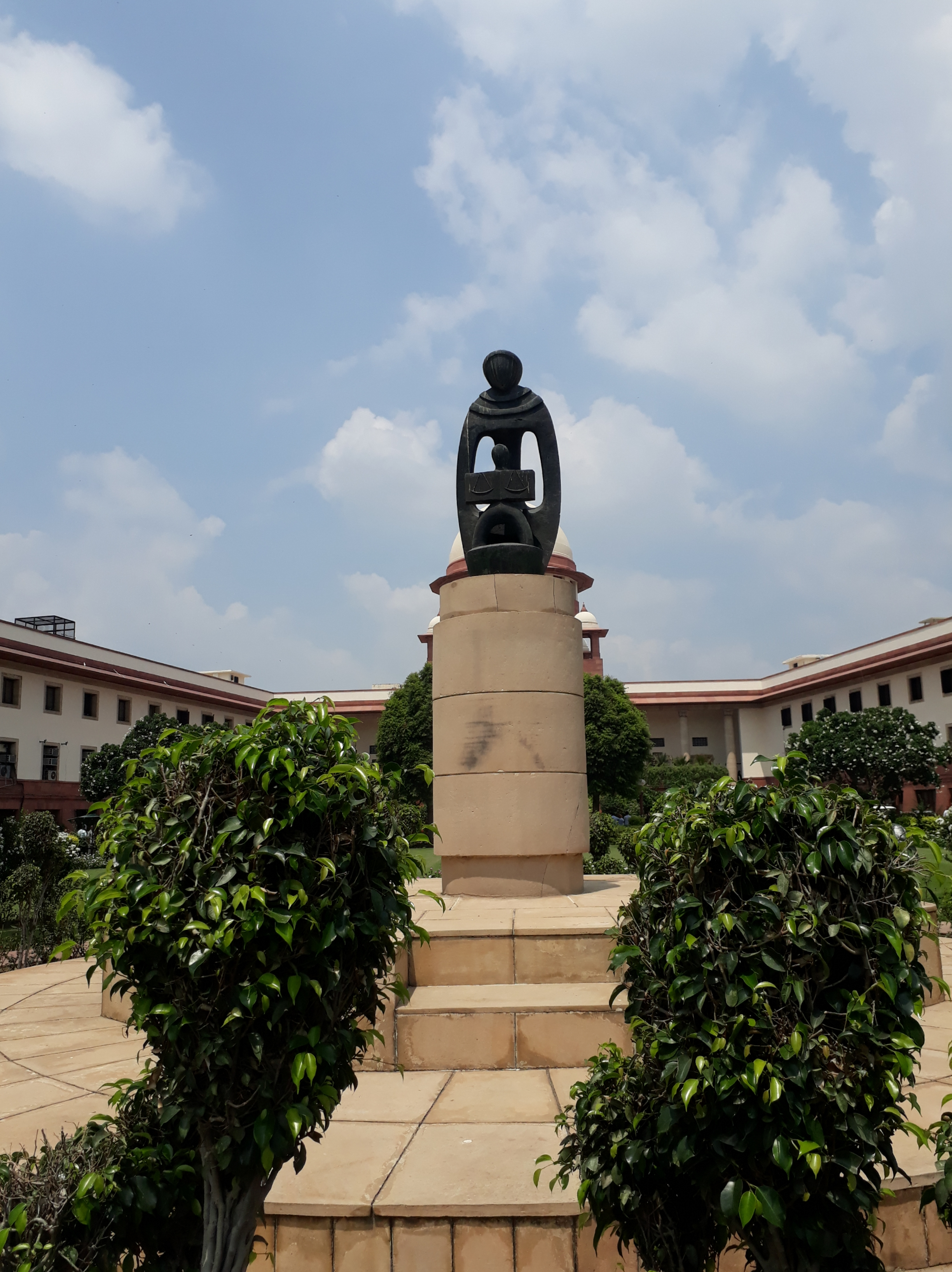 Inside the Supreme Court of India, Building and premises, New Delhi